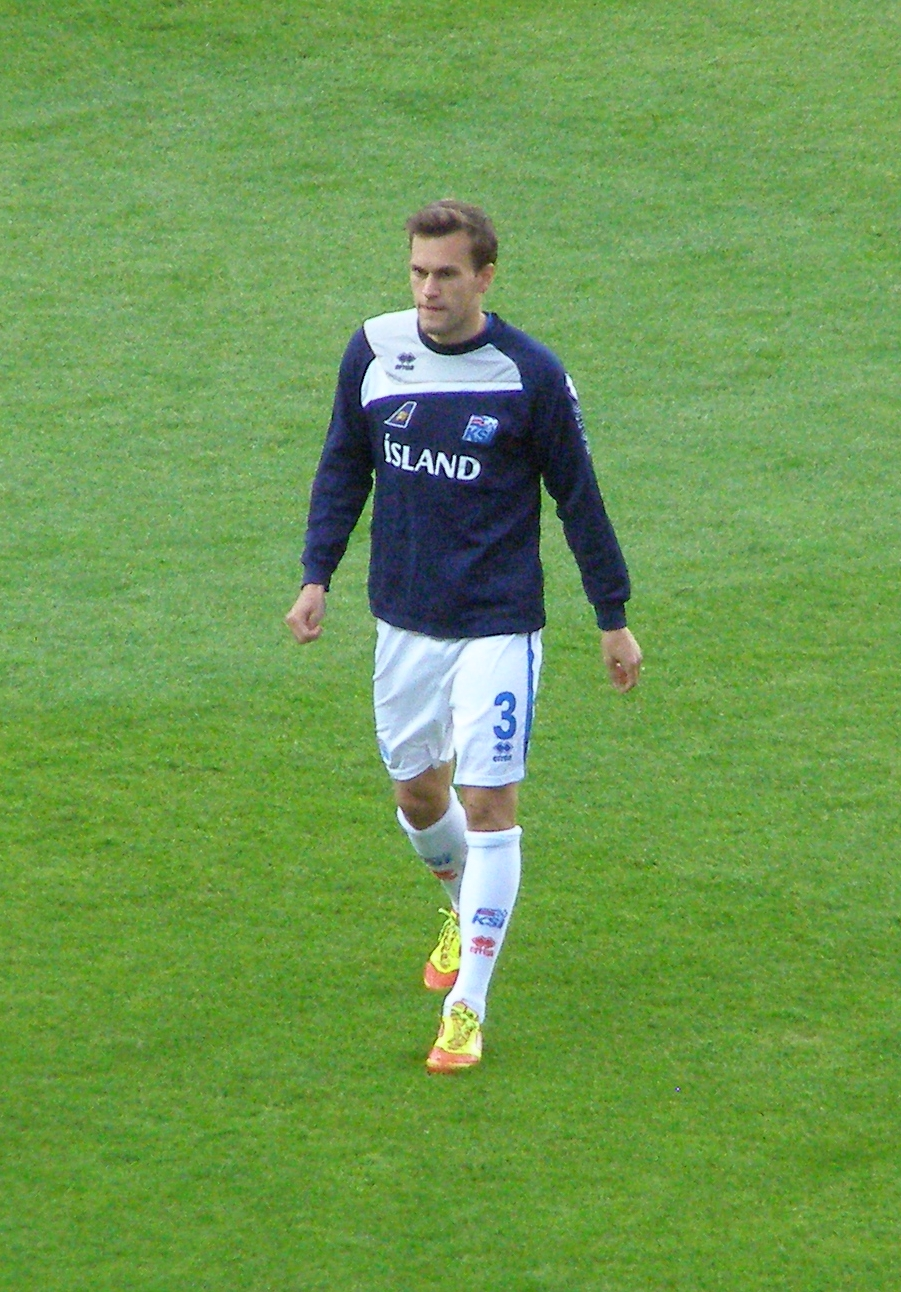 Gothenburg - Gamla Ullevi - Sweden-Iceland friendly - Hjörtur Logi Valgarðsson